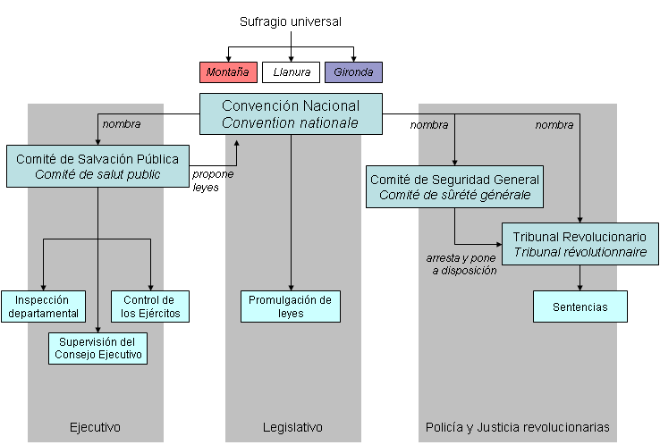 Institutions of the National Convention, during the French Revolution